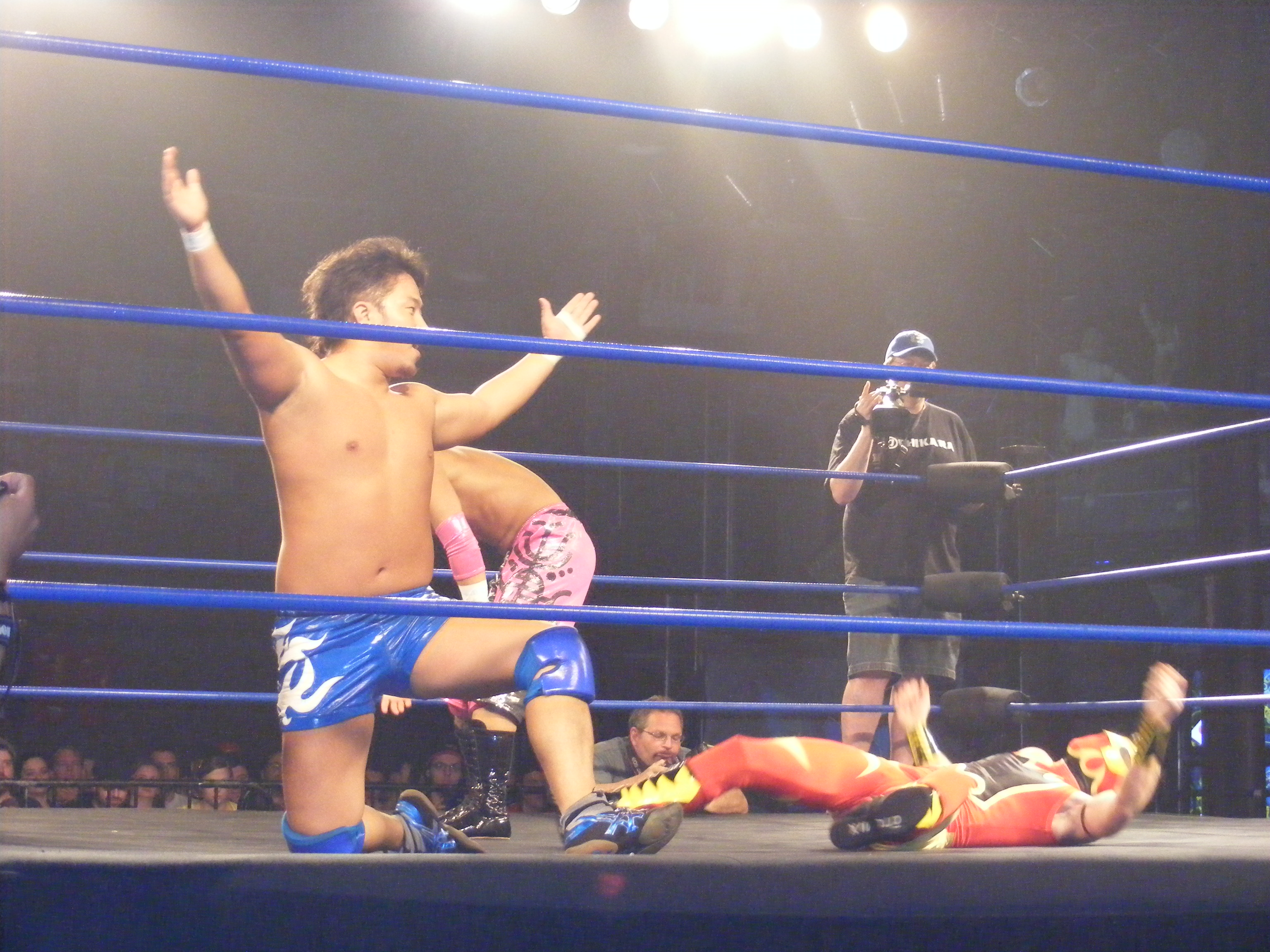 Professional wrestler Daisuke Harada posing over Fire Ant at Chikara King of Trios 2010.